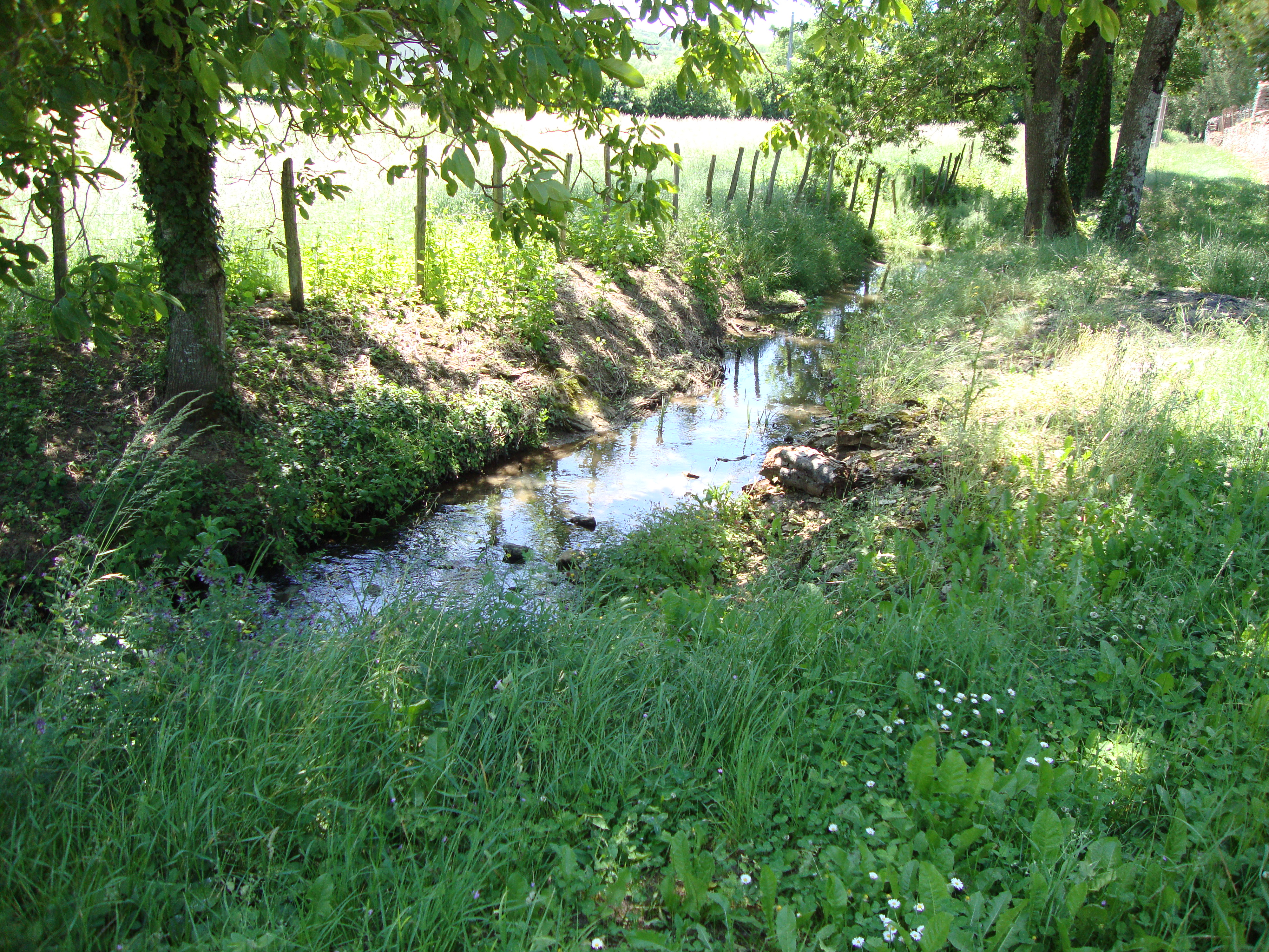 Near Aluze (Saône-et-Loire, Fr) : stream called le Giroux near its source at the lieu-dit l'Entonnoir. ATTENTION : THIS IS NOT THE RIVER THALIE.